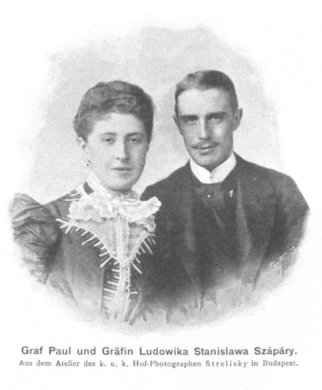 Photograph of Pál (Paul) Szápáry (1873-1917), a Hungarian nobleman, with his wife Ludowika.Stanislawa.